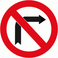 Diagram of road signs of Luxembourg